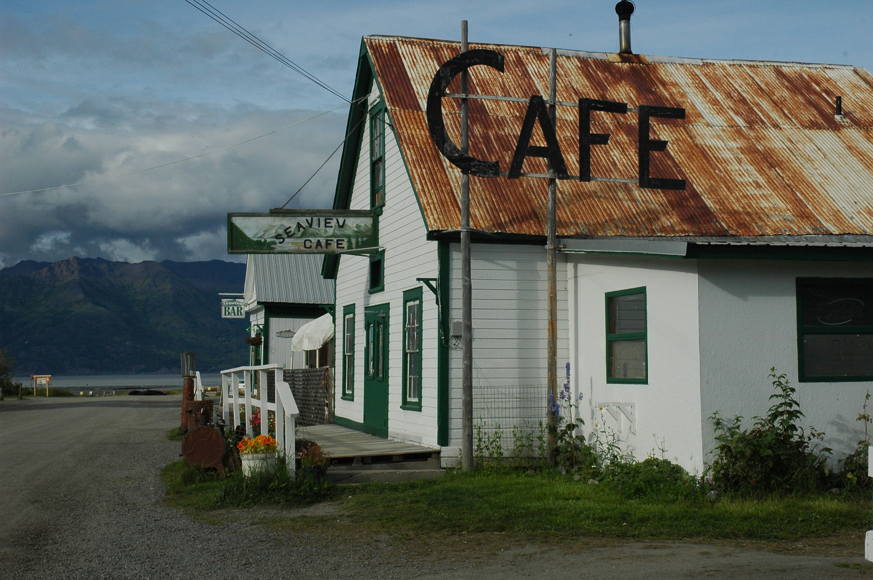 The former gold-mining town located at the end of a 30 mile road is now a weekend retreat for residents of Anchorage.